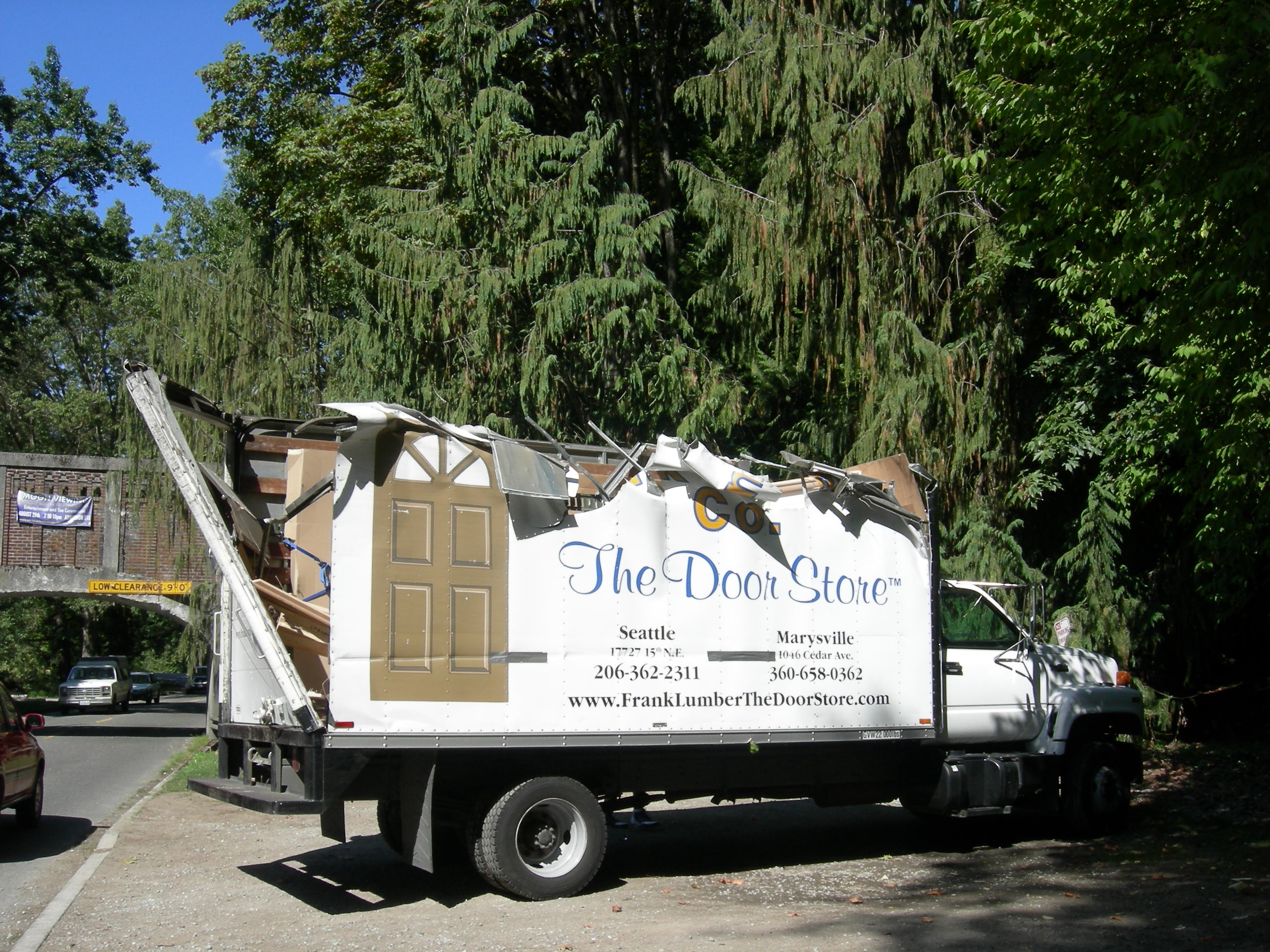 This picture shows a truck that collided into the underside of a footbridge over in the Washington Park Arboretum, Seattle, Washington, bridging Lake Washington Blvd and listed in the National Register of Historic Places; the minor damage to the bridge can be seen in Image:Seattle - Arboretum Bridge - Aug 2007 damage.jpg.